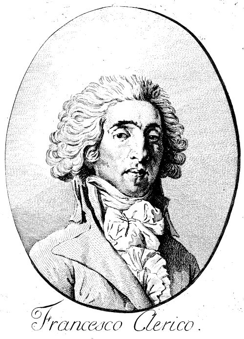 Depicted person: Francesco Clerico – Italian ballet choregrapher